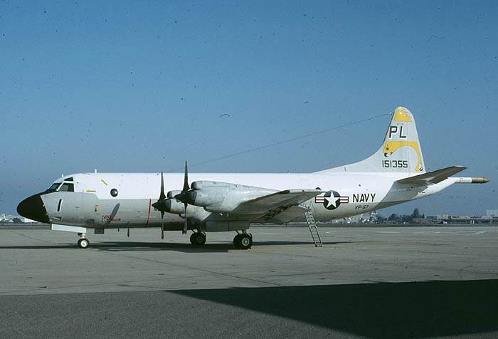 VP-67 (PL 1) P-3A (BuNo 151355) at NAS Moffett Field, November 1982. Photographed by Michael Grove. Repository: San Diego Air and Space Museum Archive